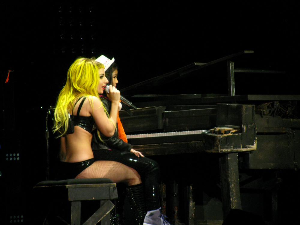 Lady Gaga singing the acoustic version of "Born This Way" with her ten-year-old fan, Maria Aragon, on The Monster Ball Tour. (Toronto, 2011-03-03.)